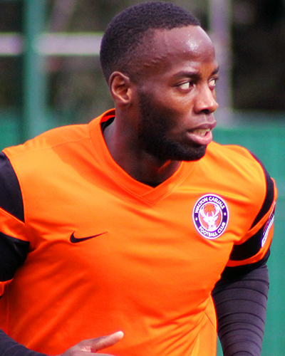 Gabriel Odunaike in action for Walton Casuals.